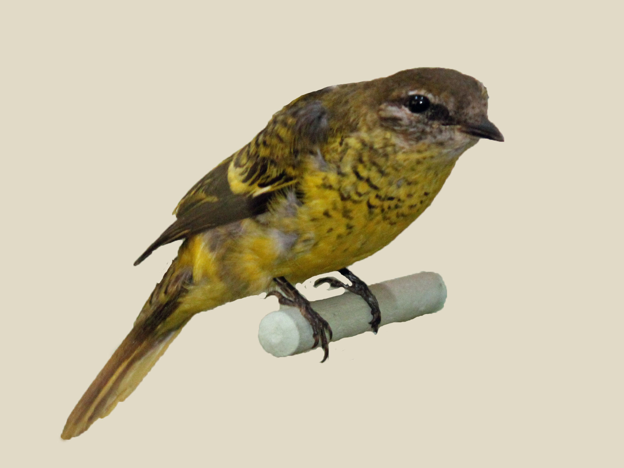 Female Petit's Cuckooshrike (Campephaga petiti). Photograph of a specimen at Nairobi National Museum in Nairobi, Kenya.